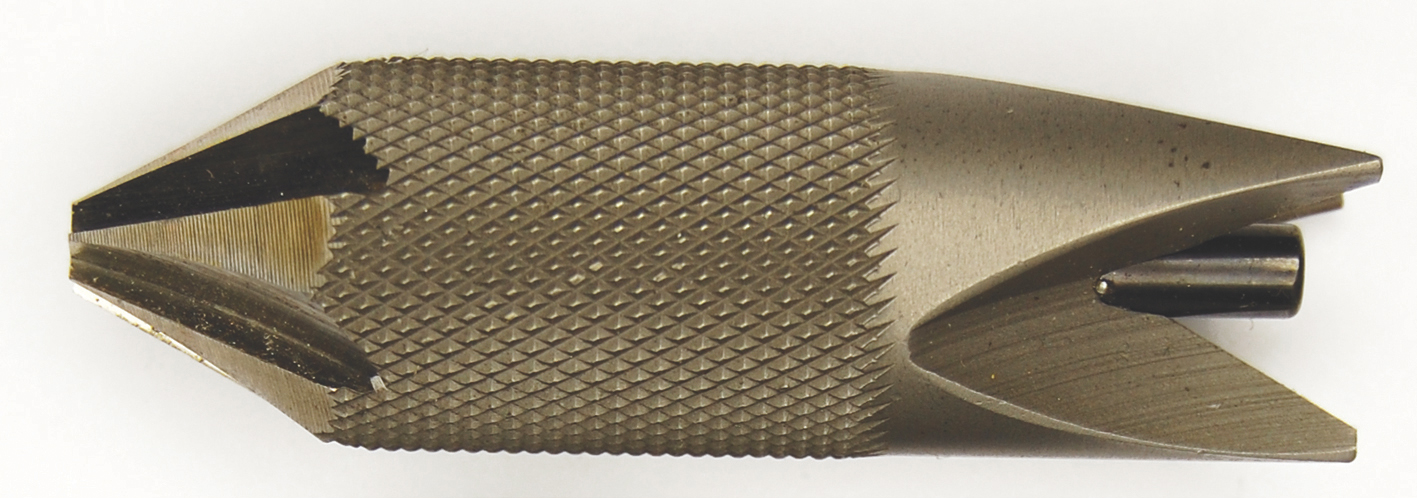 Charmfer & Deburring Tool